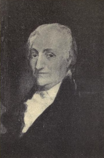 British military officer and Governor of Nova Scotia Montague Wilmot (d. 1766)